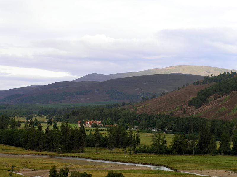 This photograph shows Mar Lodge from the Linn of Dee road and was taken by Joe Dorward on 03SEP06.